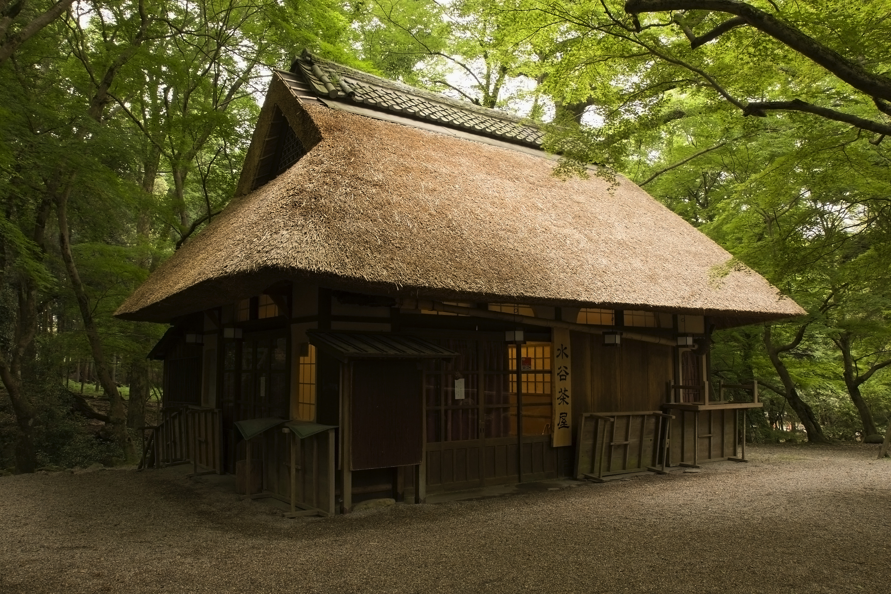 Chaya in Nara Park. A Chaya (茶屋) is a traditional Japanese cafe, offering tea and wagashi. The sign reads Mizuya Chaya (水谷茶屋).